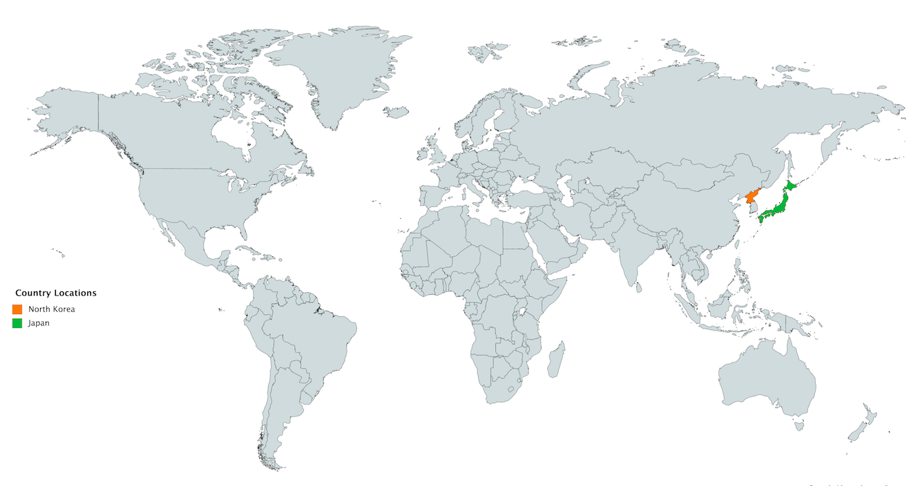 Japan- North Korea on World Map